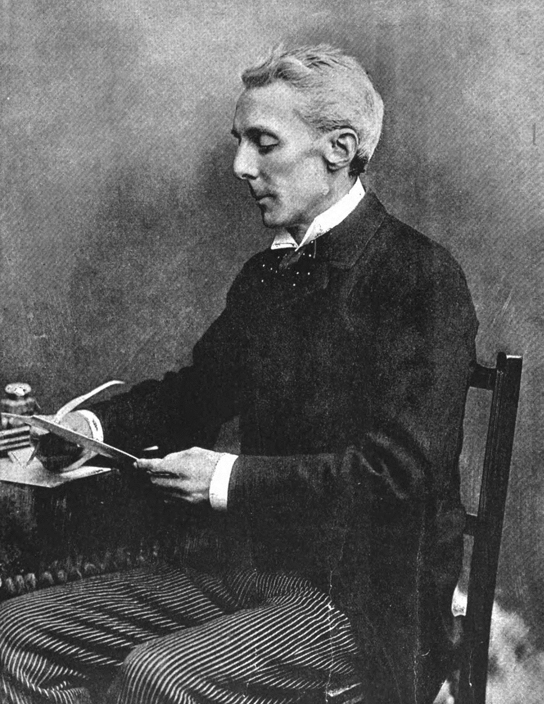 Sir John Pope Hennessy (1834-1891)